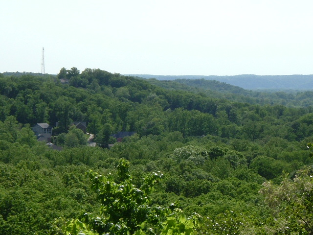 Hills south of Iroquois Park #2